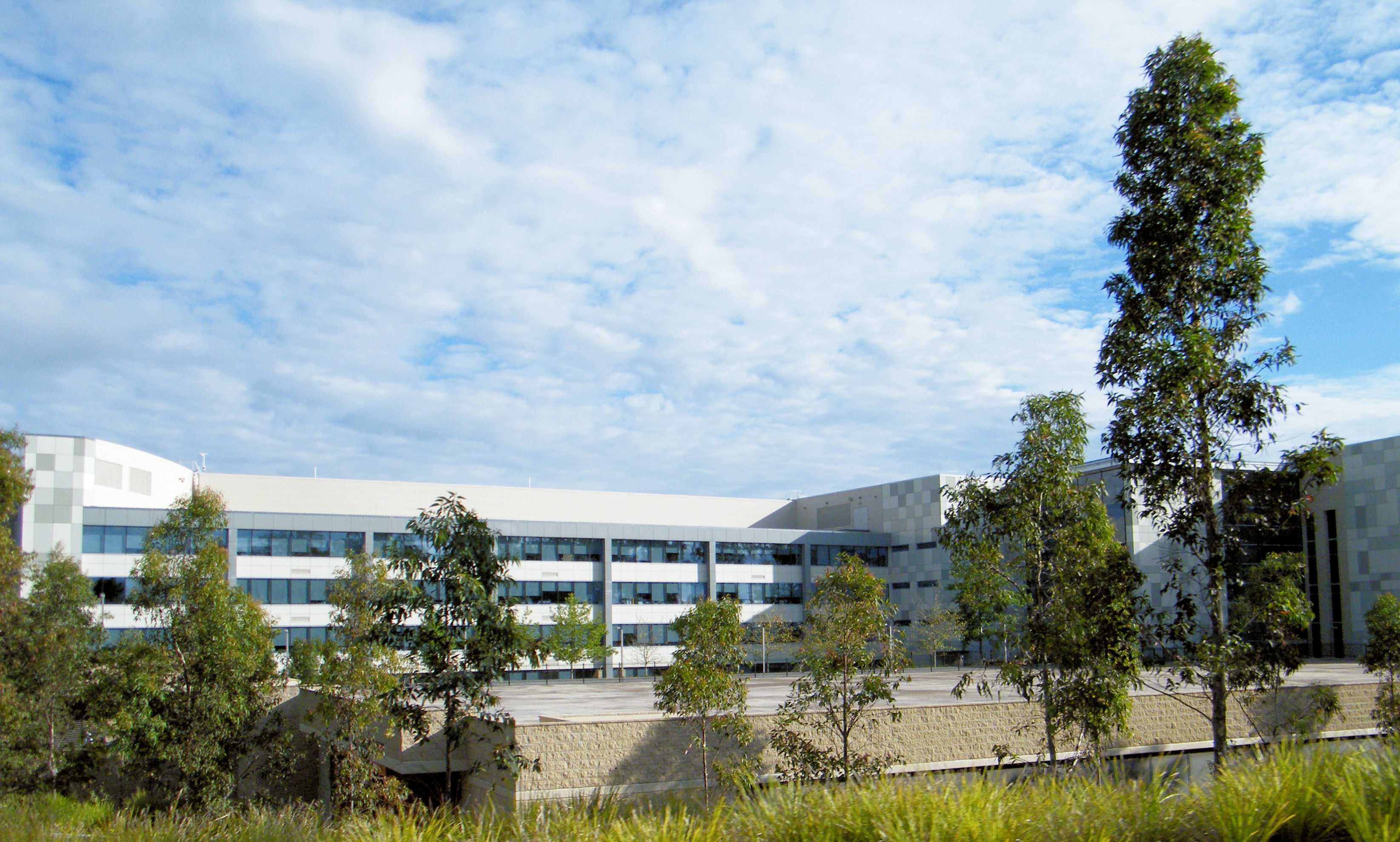 Woolworths Limited headquarters in the Norwest Business Park, Bella Vista, Australia. Photographed on November 29, 2009 by user Coolcaesar.